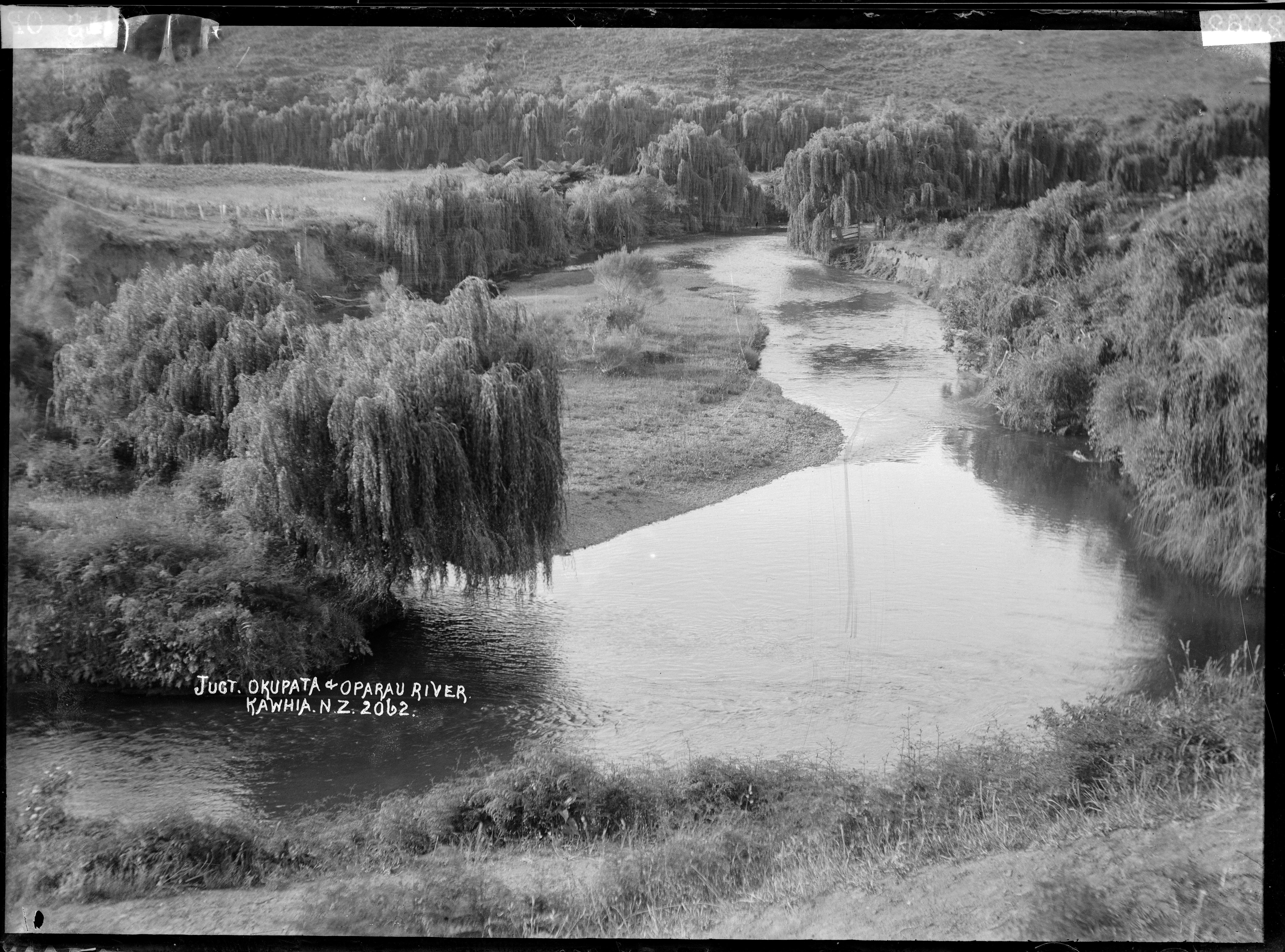 Junction of Okupata and Oparau Rivers, Kawhia. Photograph taken, possibly by Jonathan & Co, between 1900-1930. Inscriptions: Inscribed - Photographer's title on negative -bottom left: Junct. Okupata & Oparau River, Kawhia, NZ, 2062. Quantity: 1 b&w original negative(s). Physical Description: Dry plate glass negative 6.5 x 4.75 inches Junction of Okupata and Oparau Rivers, Kawhia. Price, William Archer, 1866-1948 :Collection of post card negatives. Ref: 1/2-000465-G. Alexander Turnbull Library, Wellington, New Zealand.